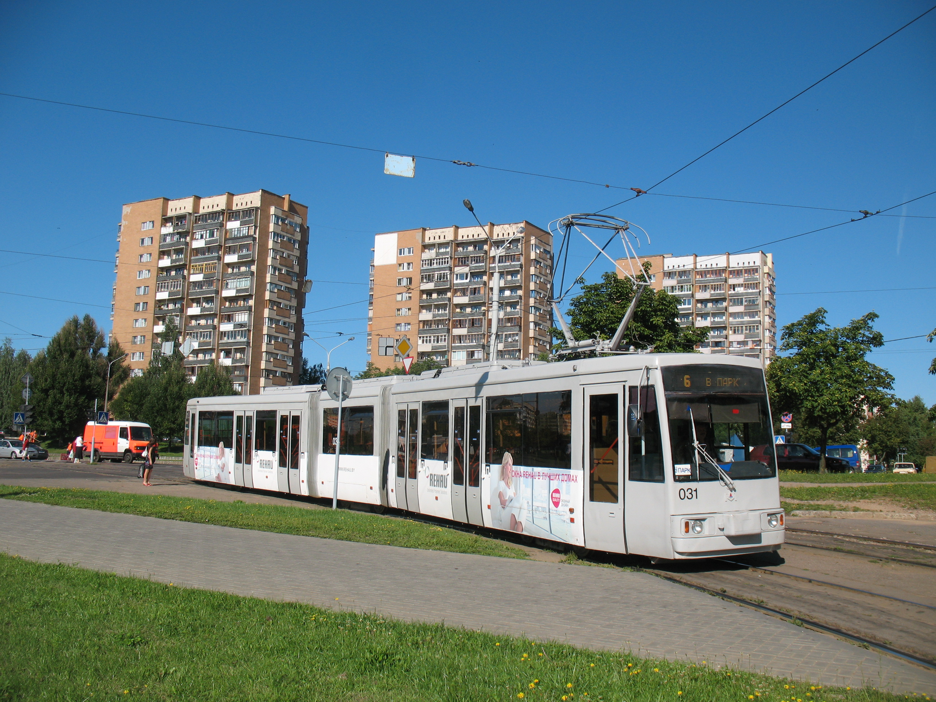 Minsk, tramway AKSM-743 #031 on route #6.